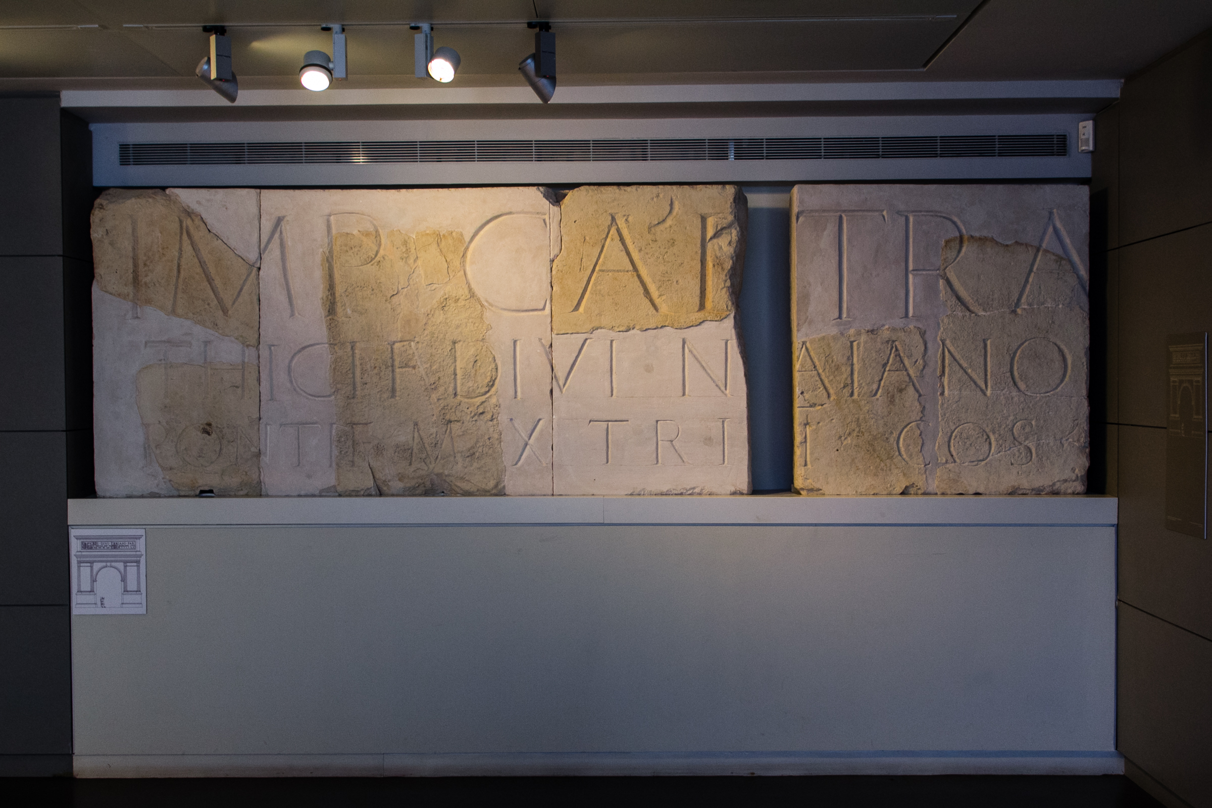 Monumental Latin inscription discovered near the camp of the Sixth Legion in Tel Shalem. Part of a triumphal arch built in 136 CE to Harian to commemorate victory in the Bar Kochva Revolt